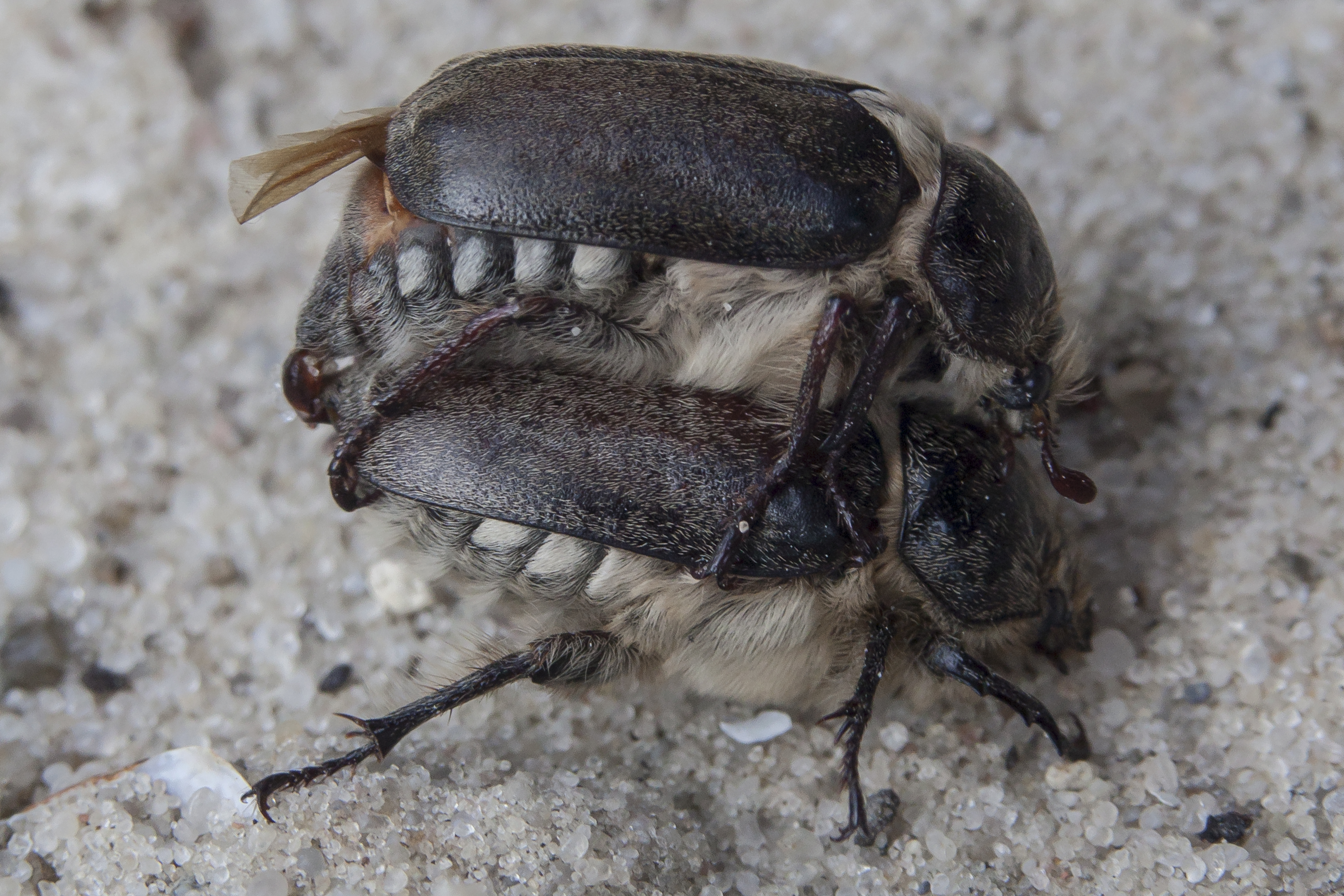 Anoxia pilosa male and female in copula, 05.06.2017, Kyiv, Ukraine, evening mass gathering